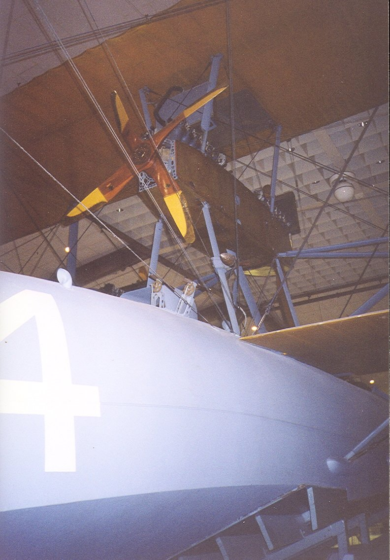 Airplane engine and propeller. This is a detail of the NC-4, which made the first transatlantic flight in 1919. Now in the Pensacola, Florida Naval Aviation Museum.